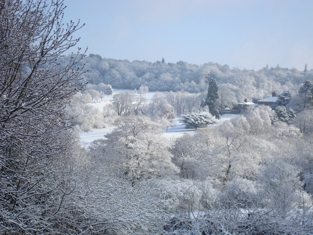 Leasowes Golf Club Winter View